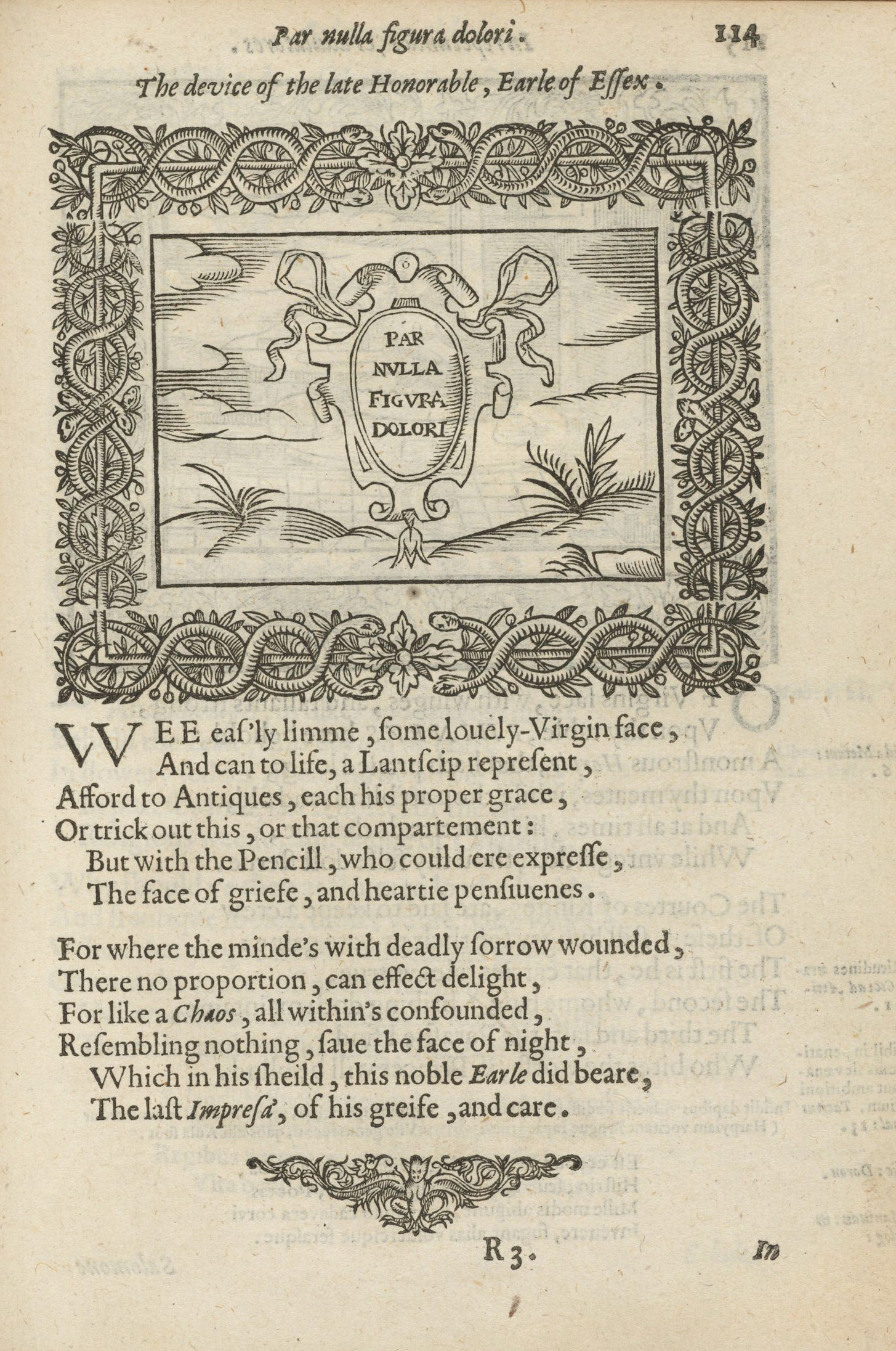 "Par nulla figura dolori". Page from Minerua Britanna or A garden of heroical deuises: furnished, and adorned with emblemes and impresa's of sundry natures, London: 1612, by Henry Peacham (1576?-1643?). STC 19511, Houghton Library, Harvard University